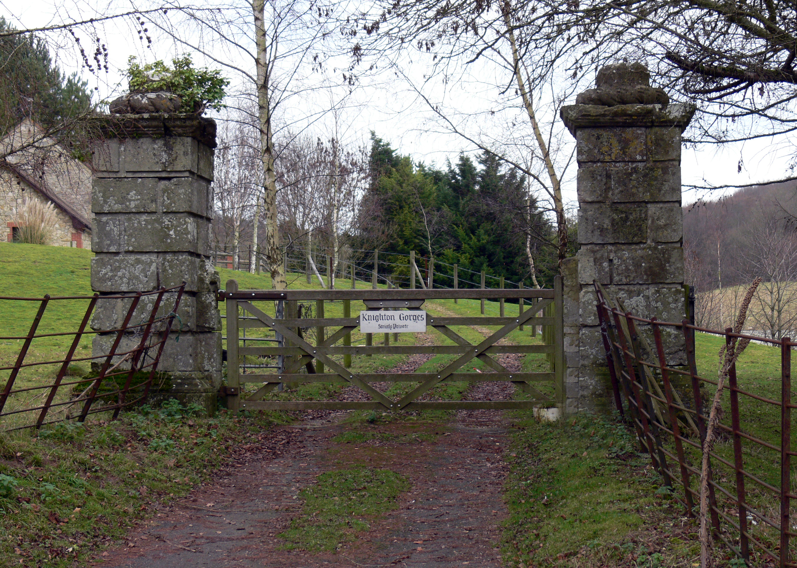 The gateposts and gate of the demolished house, Knighton Gorges, Isle of Wight, England